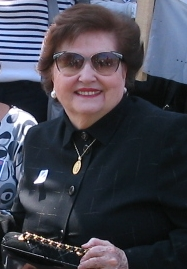 Lucía Hiriart, widow of Augusto Pinochet, in a ceremony in Inés de Suárez Square (Providencia) in support of chilean military personnel acussed of human rights offenses.